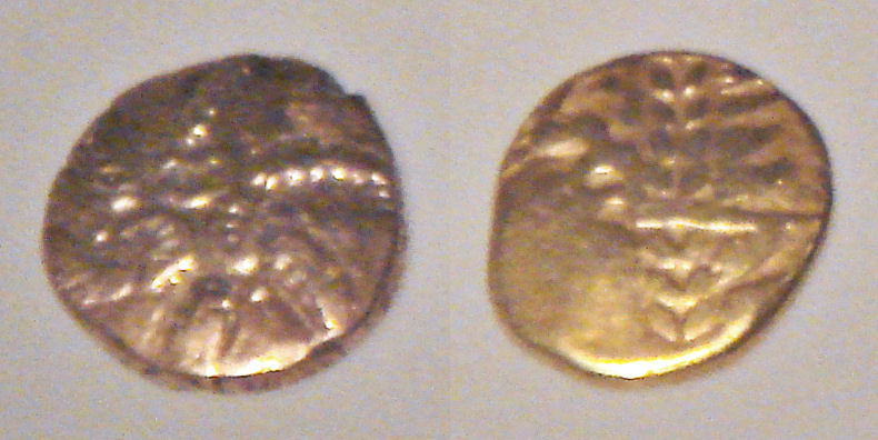 Gold_coin_of_Addedomarus_35BCE_1BCE